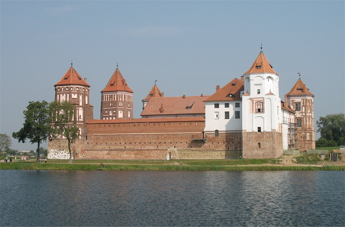 Mir castle, one of the three Unesco World heritage objects in Belarus.